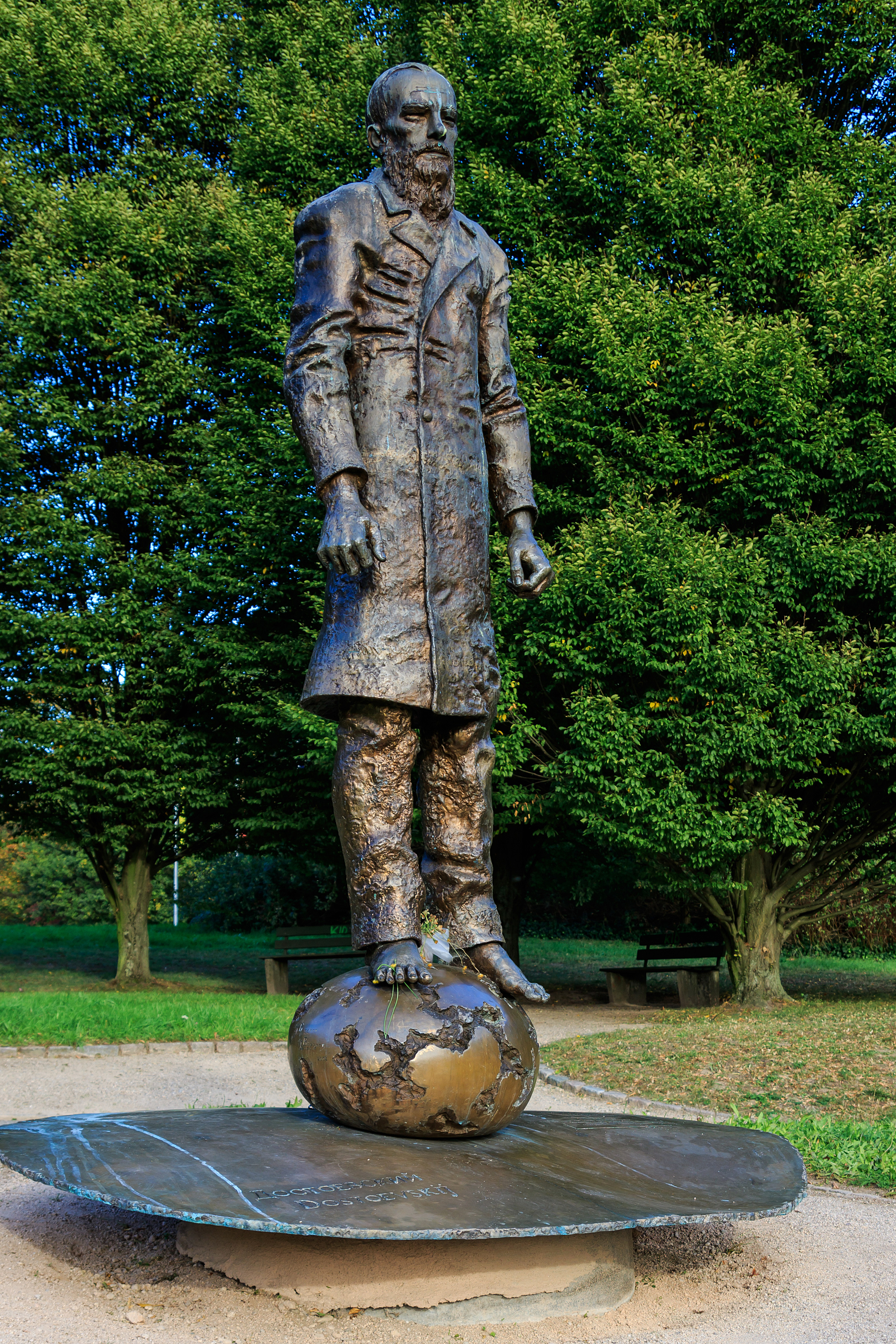 Monument to F.M.Dostoevsky in Baden-Baden (BW, Germany).